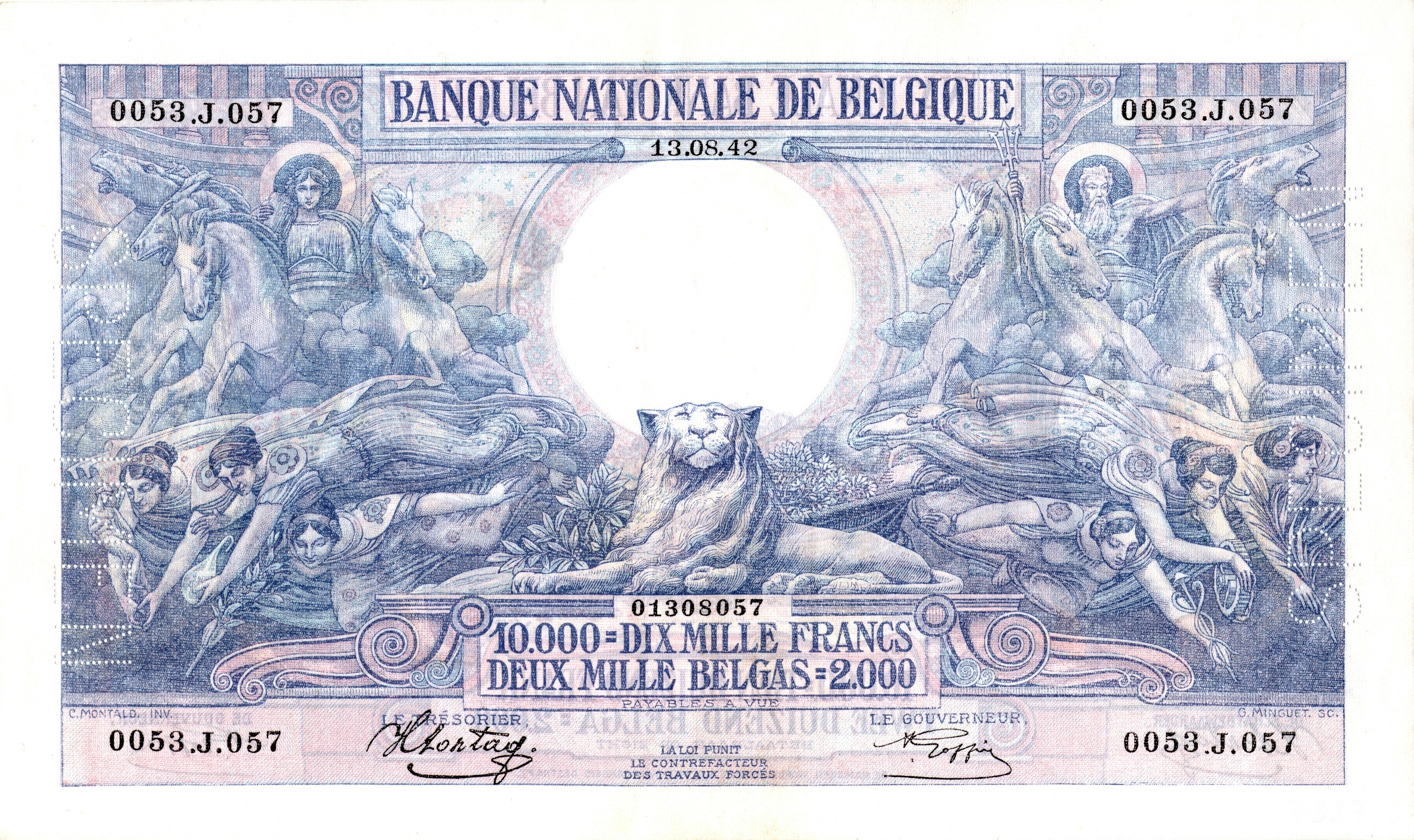 10,000 Belgian francs (2,000 belgas) of 1929 (obverse). Middle and dark tones adjusted to compensate for fading.